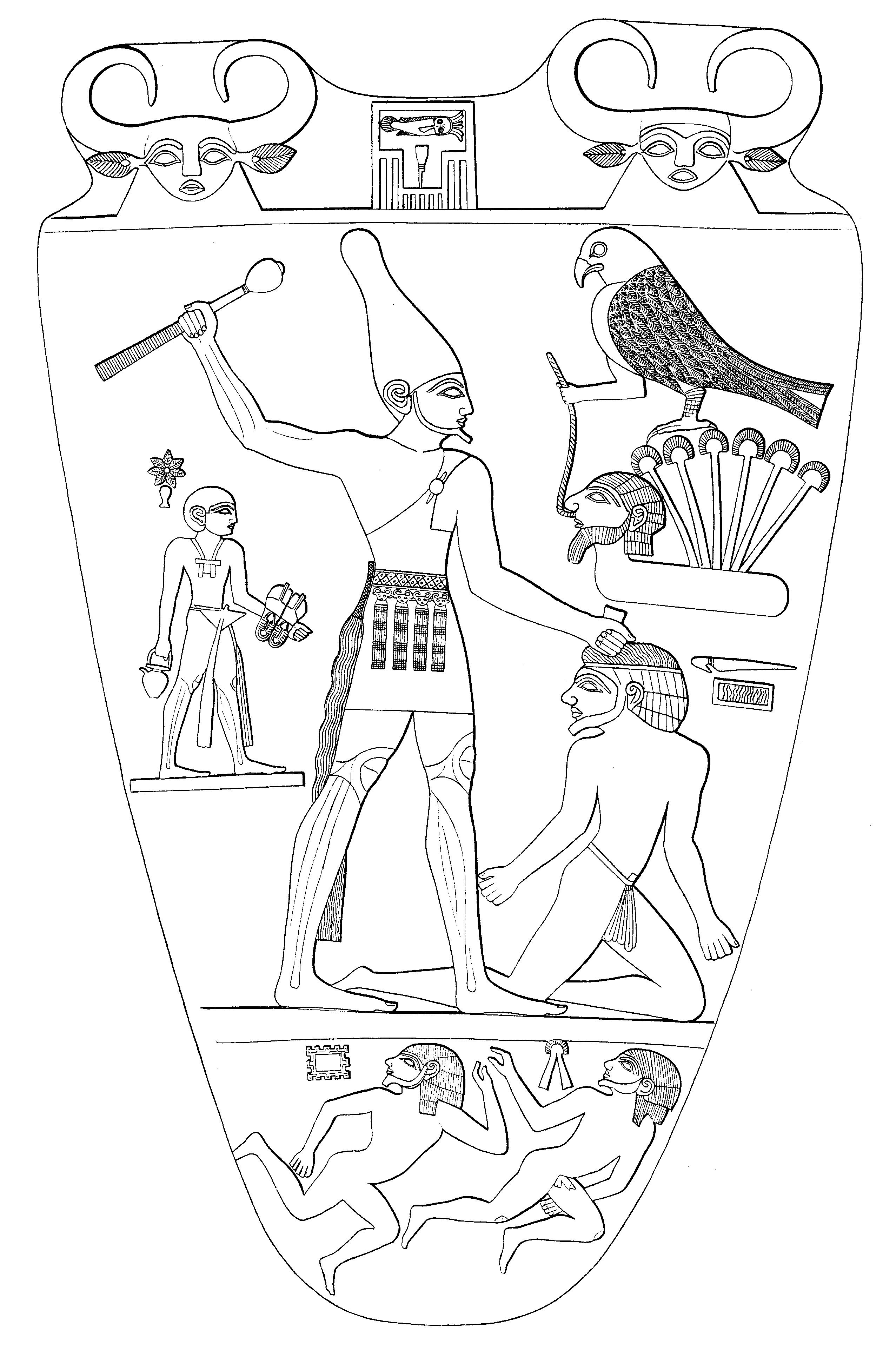 Narmer Palette , recto, Quibell, 1898, pl.13